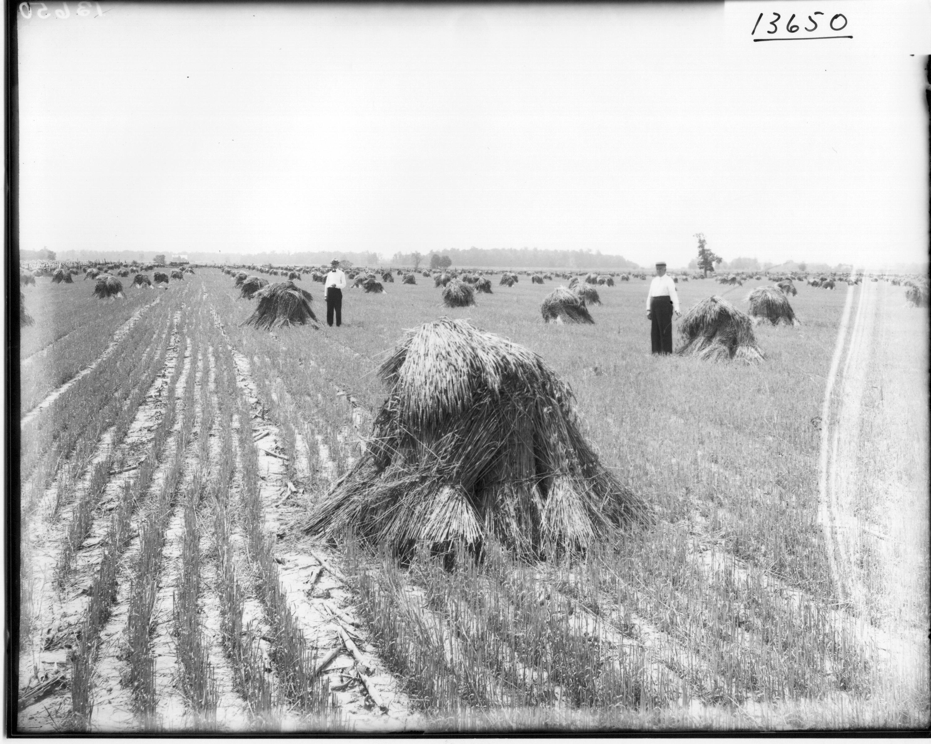 Persistent URL: Subject (TGM): Farm life; Farming; Haystacks; Agriculture; Location: Oxford, Ohio Picture taken for A. D. Douglas